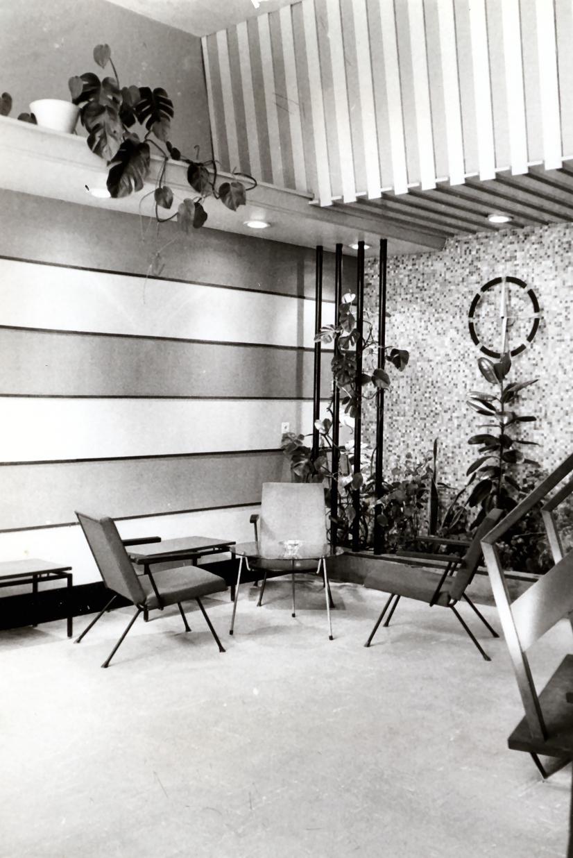 Interior of the Stokvis office entrance hall in Nijmegen (Van Welderenstraat)